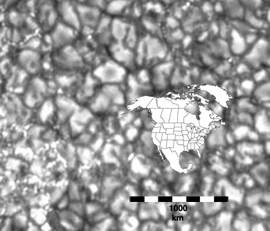 ==The Granulation of the Sun`s surface, shown behind the foreground of a map of North America on the same scale